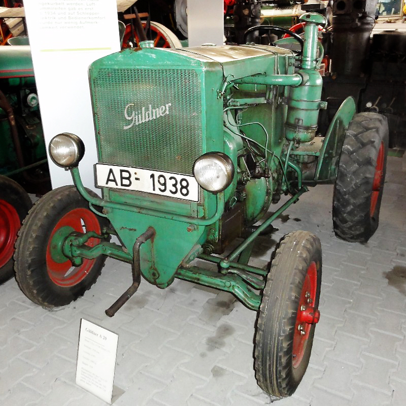 Tractor, Güldner A 20, 1938